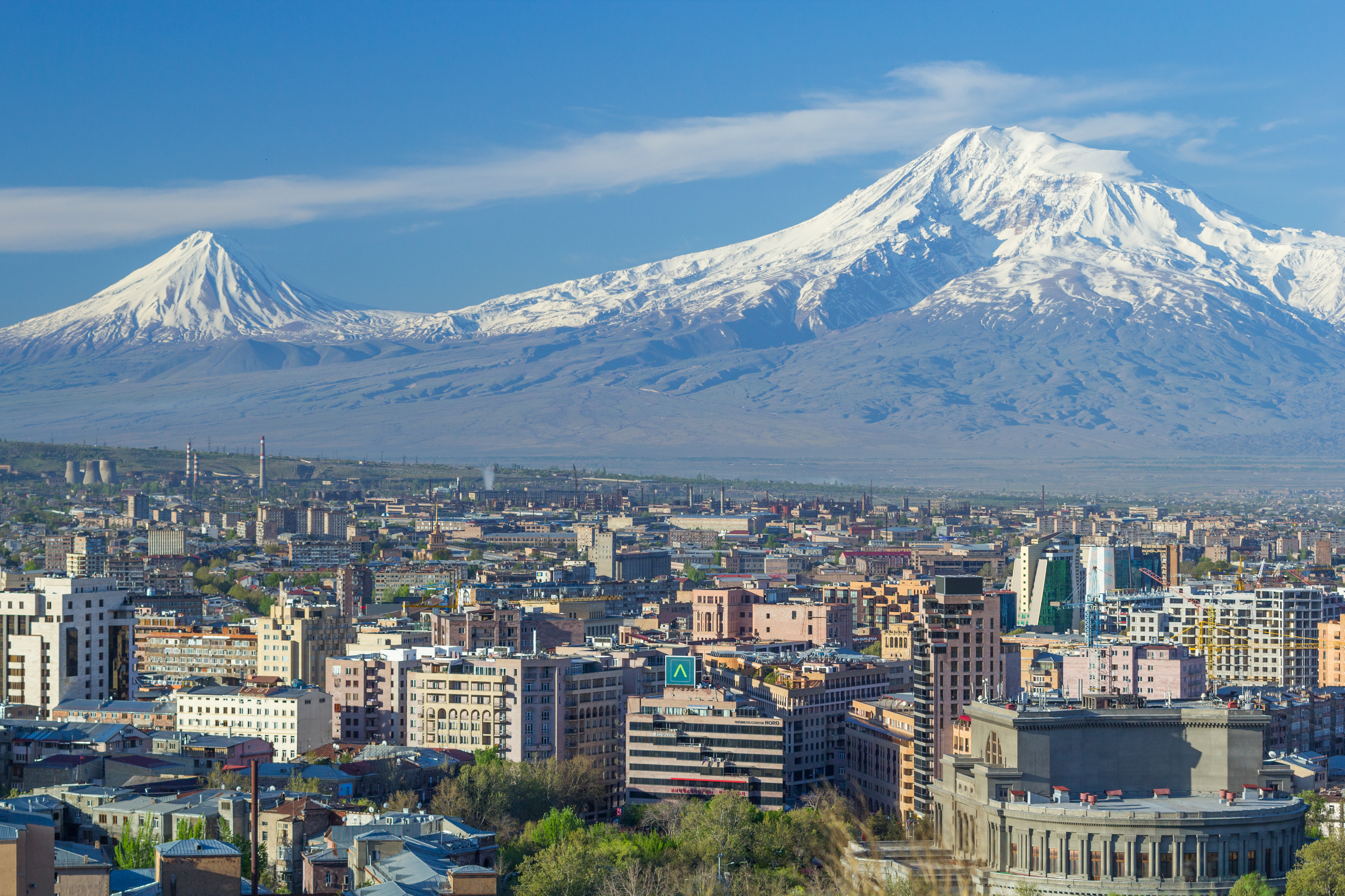 Mount Ararat and the Yerevan skyline in spring. The Opera house is visible in the bottom right.